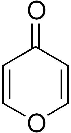 Chemical structure of 4-pyrone (4-pyranone)